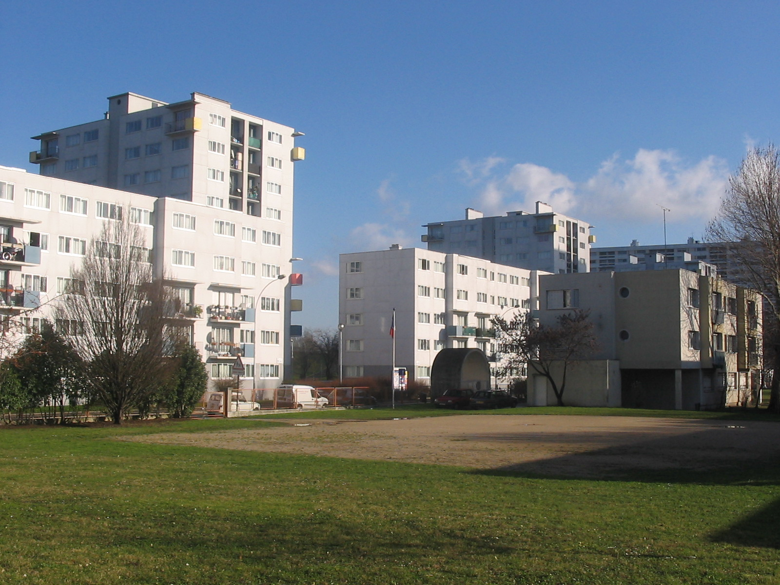 Housing estate "Cité des Cosmonautes" in Saint-Denis (Seine-Saint-Denis, Île-de-France, France).